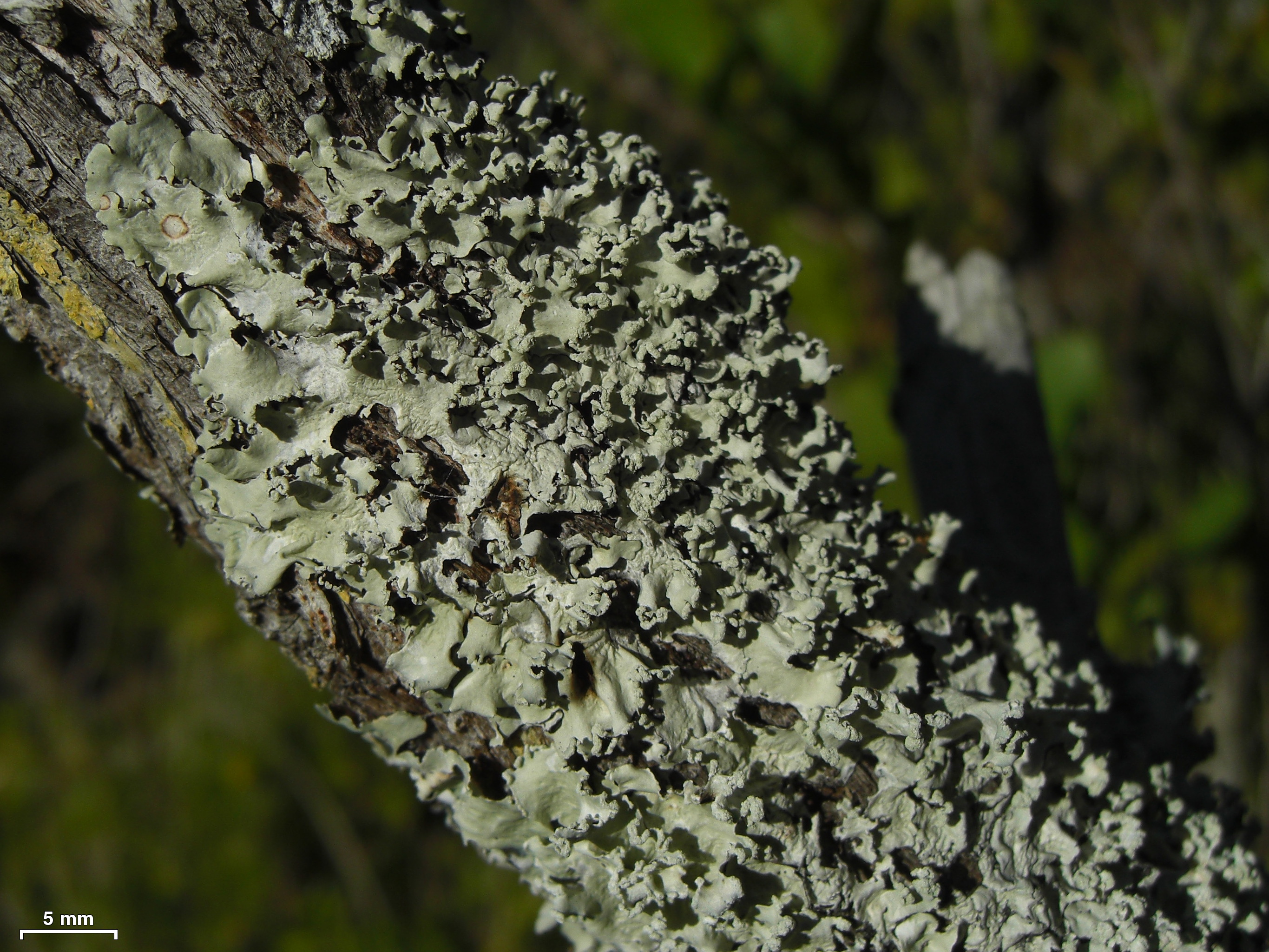 near Dove Creek, Key Largo, Florida, 20140116